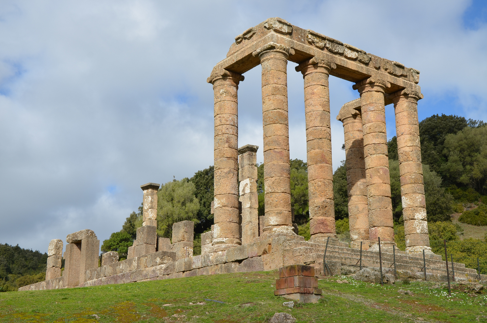 Temple of Antas, a Punic-Roman temple, first built around 500 BC and restored around 300 BC, the Roman temple was built under Augustus and restored under Caracalla, Sardinia.